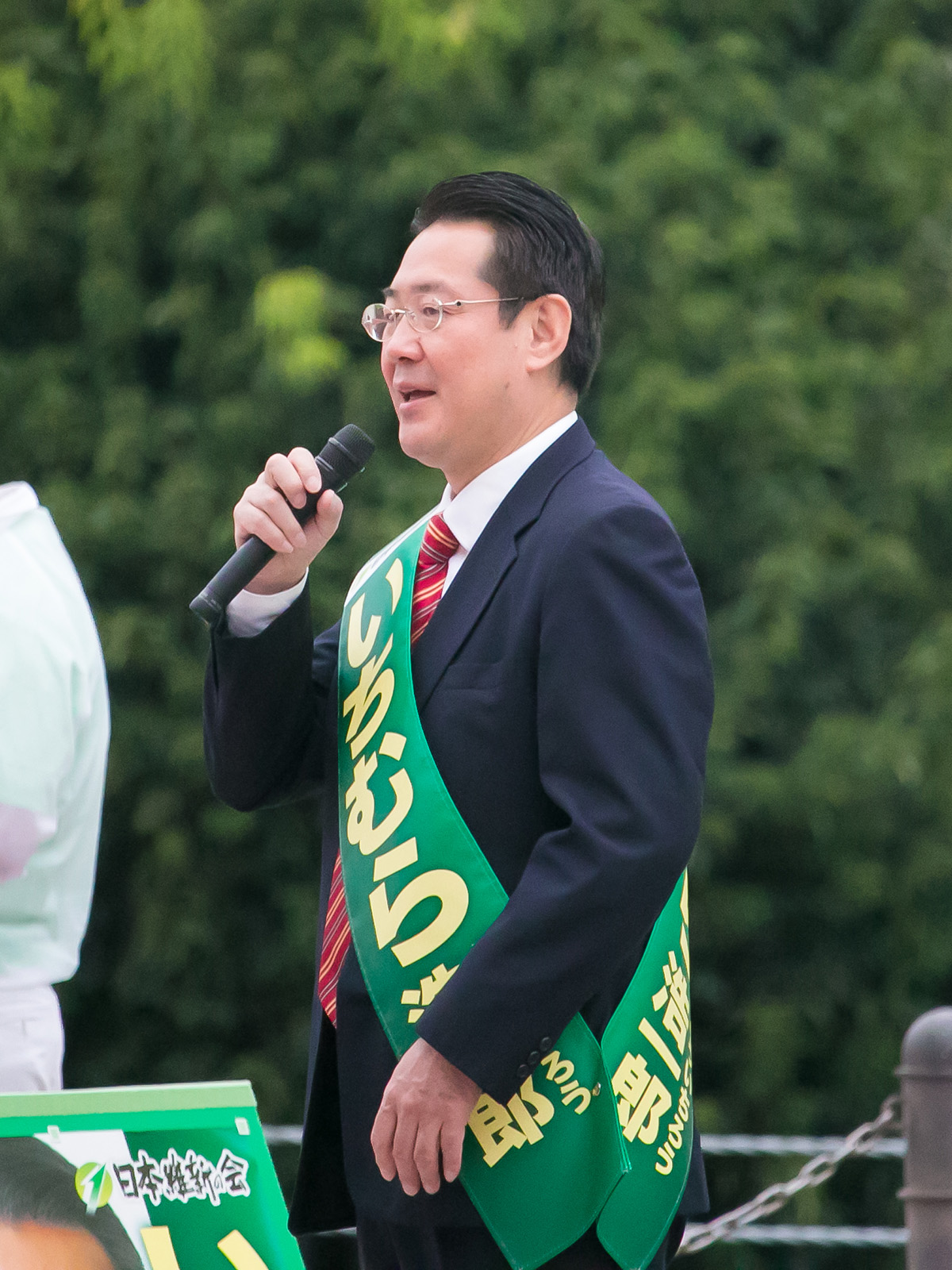 Koichiro Ichimura.